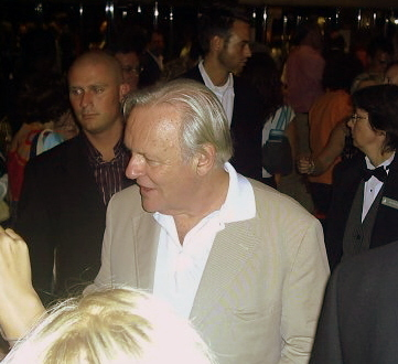 Anthony Hopkins at the premiere of Proof, Toronto Film Festival 2005